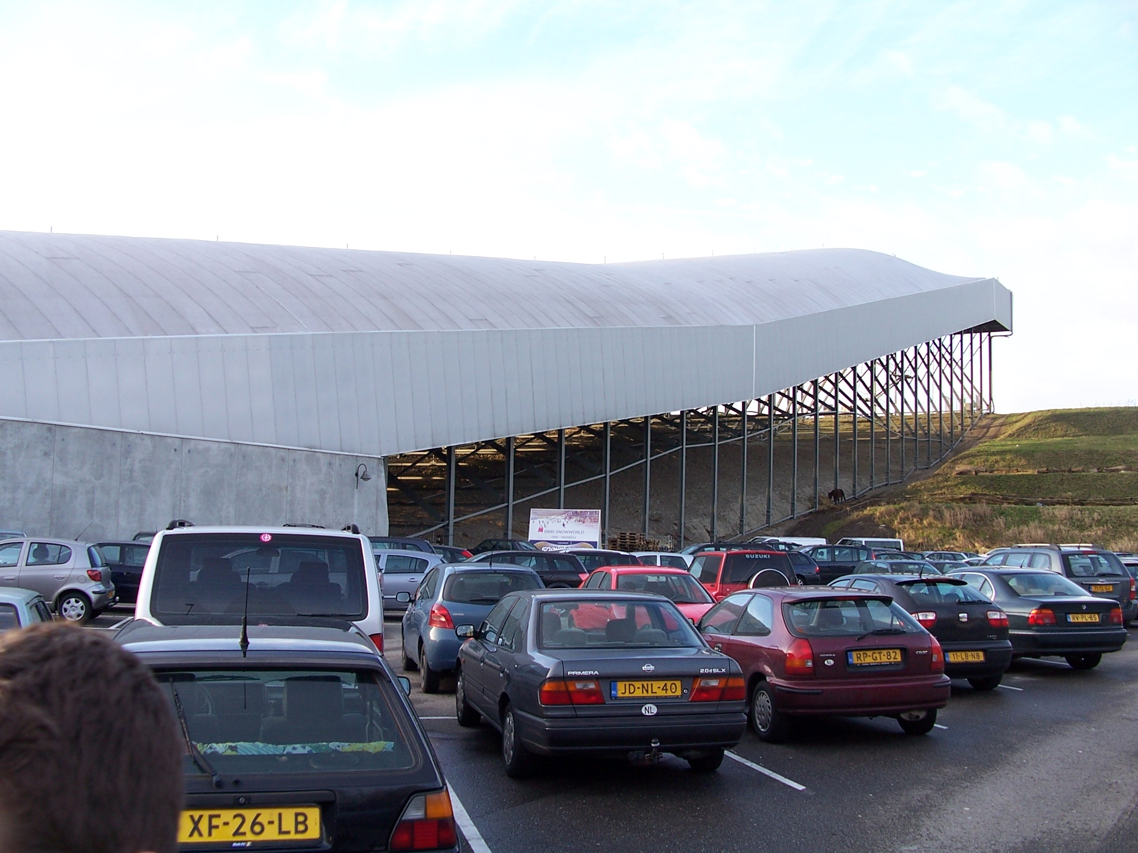 SnowWorld in Zoetermeer; The Netherlands